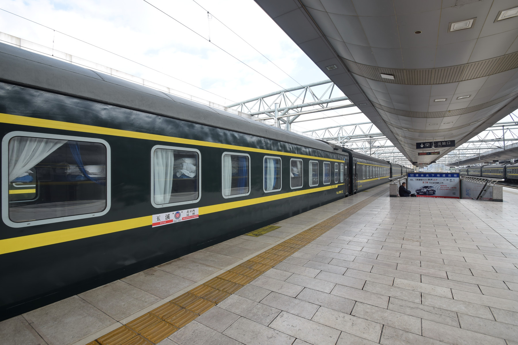 K433/K434/K9866/K9868 25G train was stopping at Platform No.2 of Kunming Railway Station.